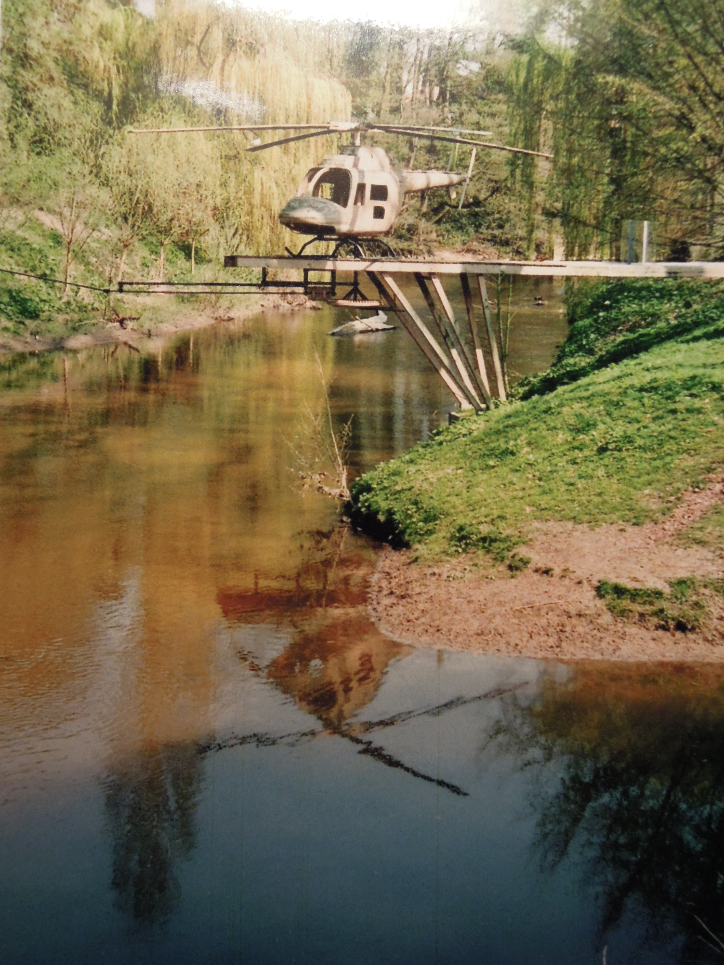 Wodden Helicopter, constructed 2005 in the central park of Vreden, teared down by the city council in 2017